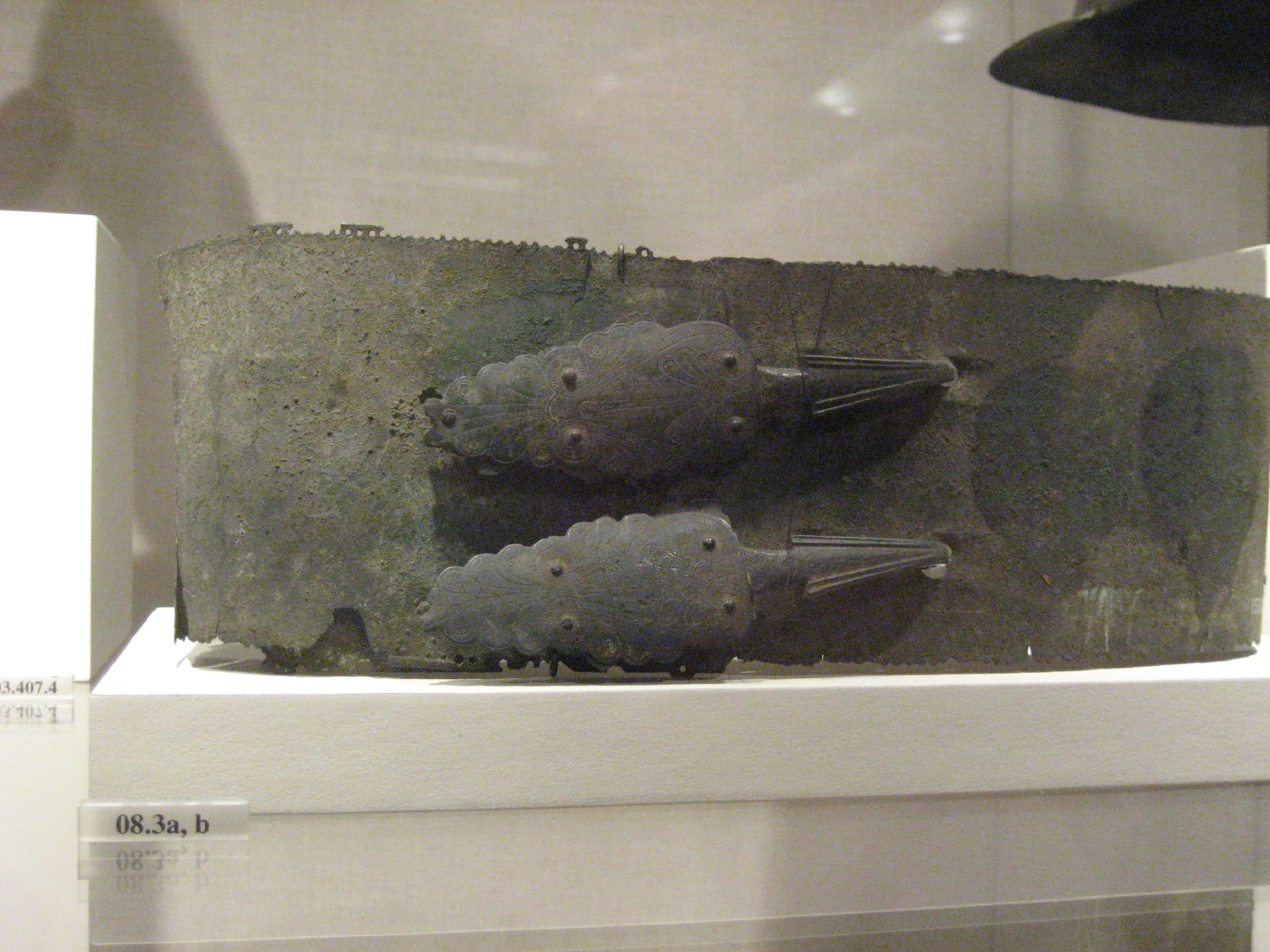 Samnite Bronze Belt and Clasp, late 5th - early 4th century B.C., Italy.